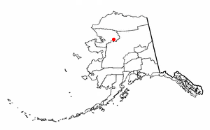 Adapted from Wikipedia's AK borough maps by Seth Ilys.